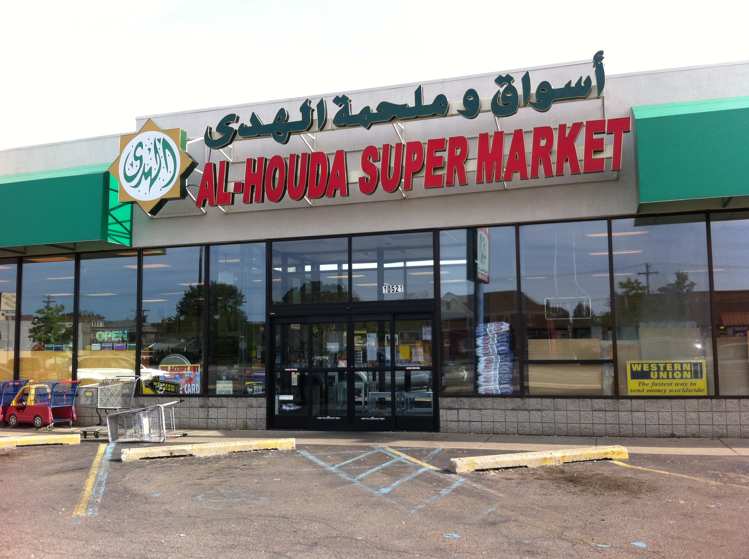 Al-Houda Supermarket, 10521 W Warren Ave, Dearborn, MI 48126